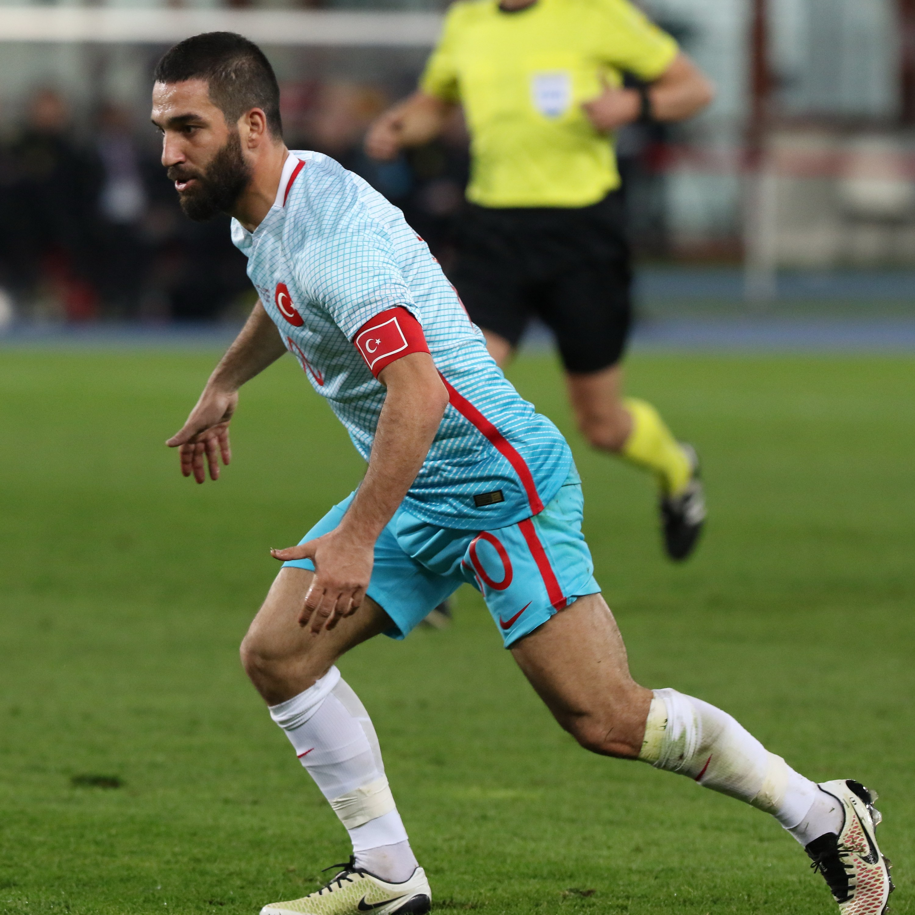 Friendly match – Austria (red shirts) vs. Turkey (blue shirts) 1–2 (1–1) on 2016-03-29 in Ernst-Happel-Stadion, Vienna – The photo shows Arda Turan (FC Barcelona).